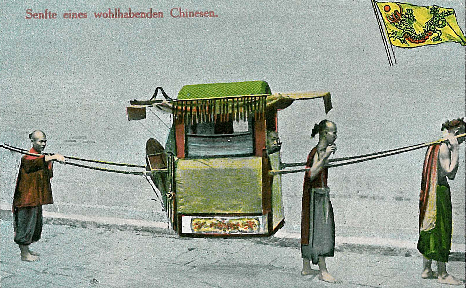 Historical postcard of China